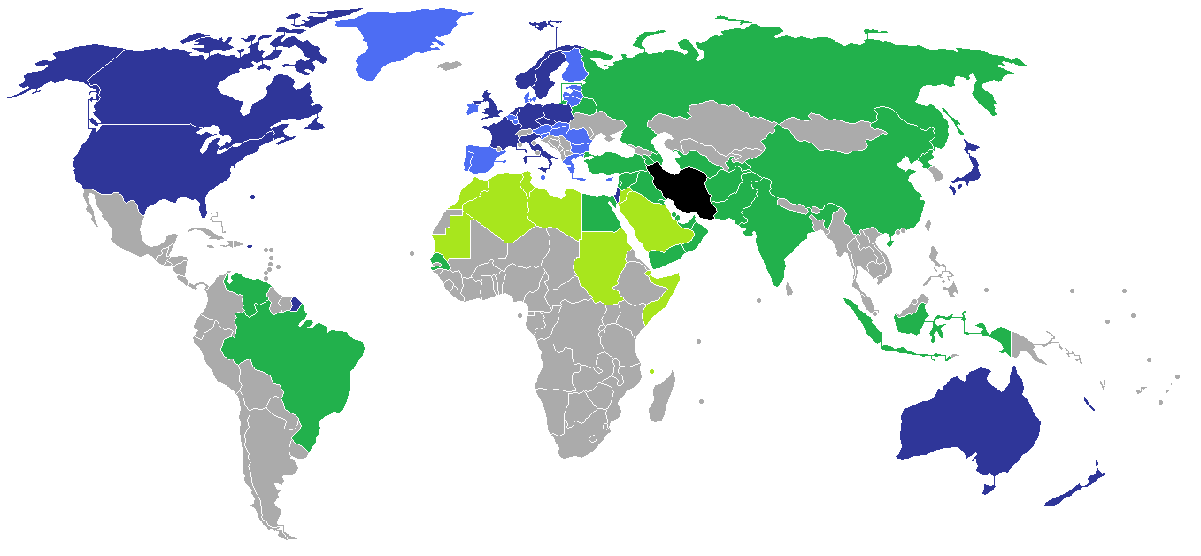 2009 Iranian presidential election international reponses Iran Countries that have welcomed the results Arab League members that have not reacted publicly to the results Countries that have expressed doubts over the results European Union members that have not reacted publicly to the results